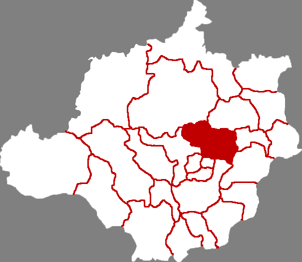 Location of Xushui county in Baoding City, China